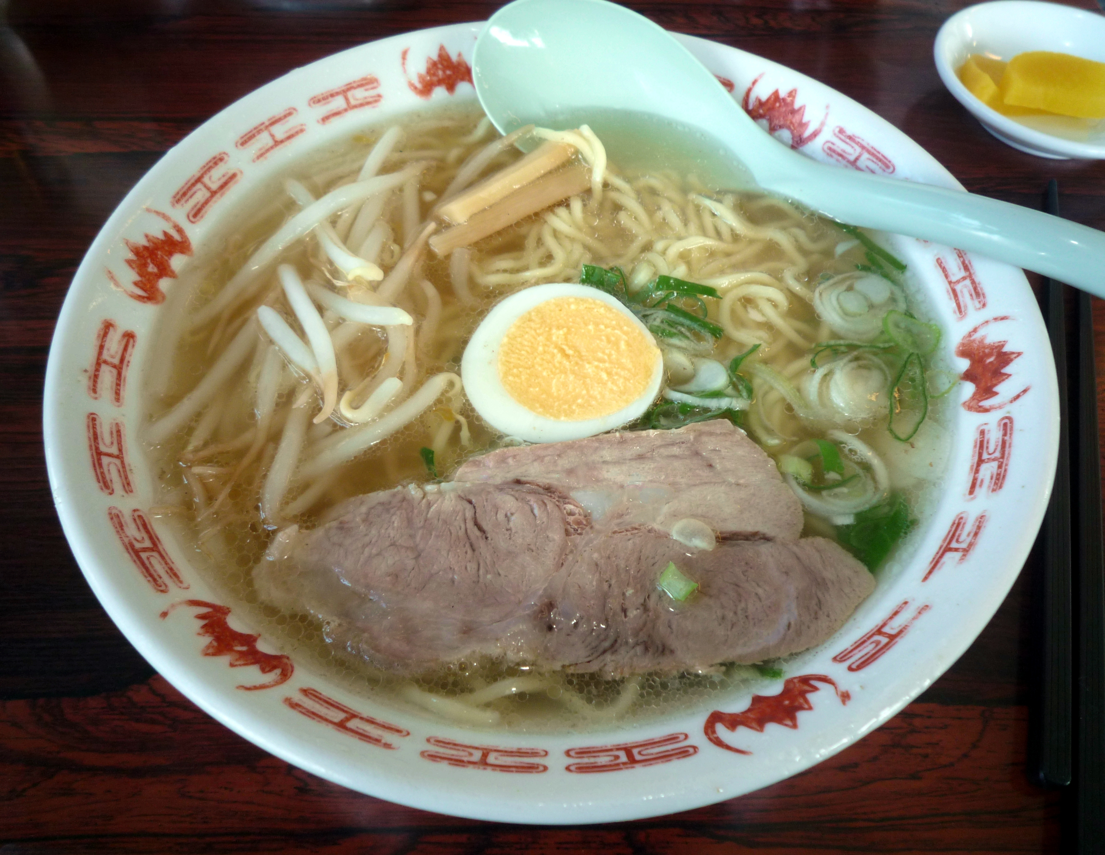 Tottori Gyūkotsu Ramen of Kamitoku (Akasaki shop).